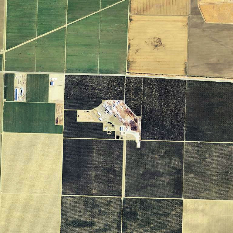 USGS digital orthophoto of Lemoore Army Airfield in California